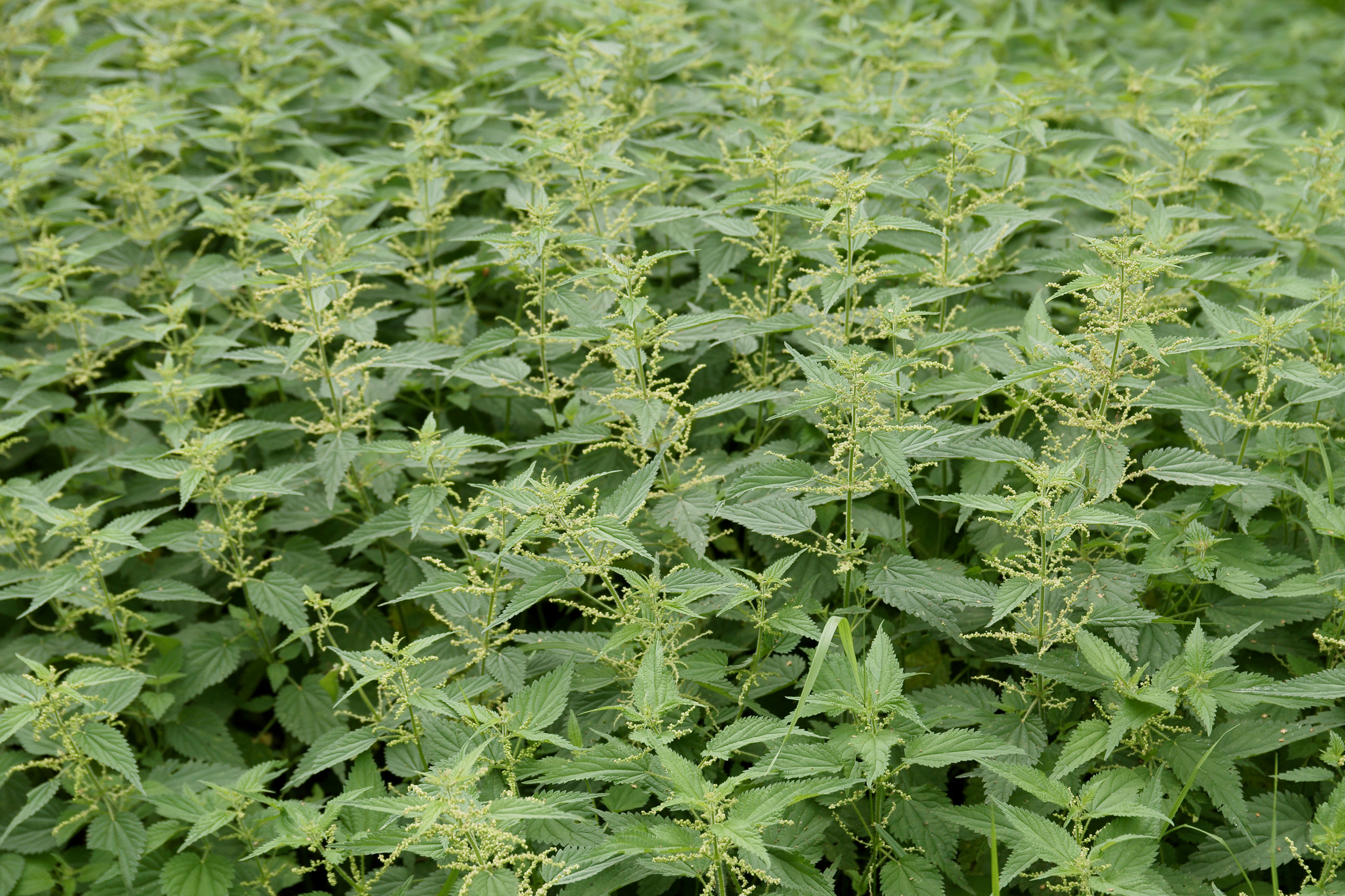 Stinging nettles (Urtica dioica).